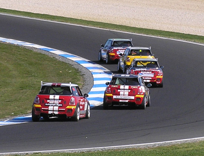 MINI Challenge at Phillip Island 2008